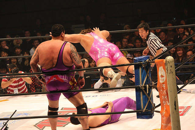 Yoshie performing a diving splash